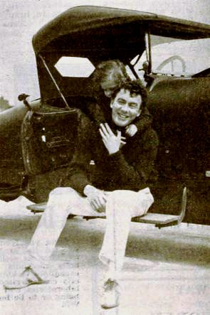 Actor Tom Moore and his daughter Alice, on page 2004 of the June 28, 1919 Moving Picture World.